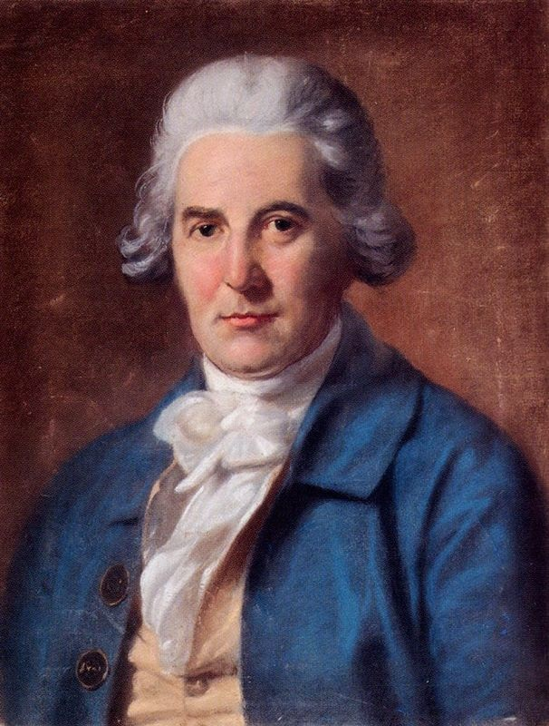 Portrait of Francis Seymour-Conway, 1st Marquess of Hertford (1718-1794)